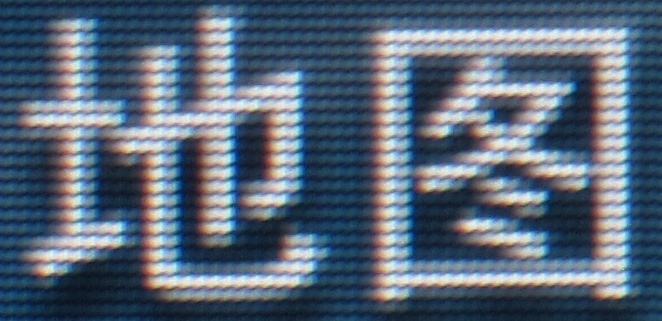 Chinese word for 'Map' (地图) on Retina Display